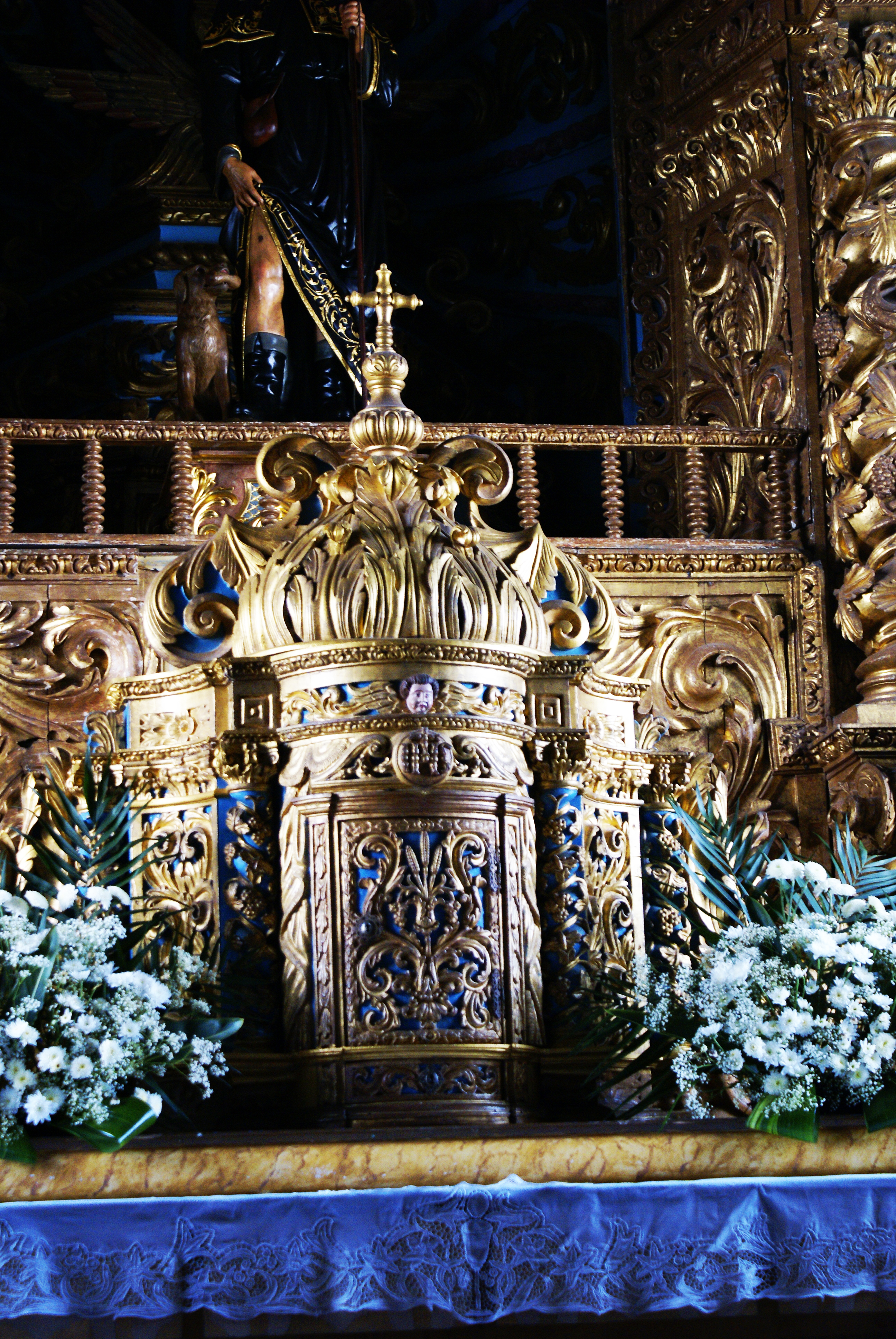 Sacristy in the Church of São Roque, São Roque, Pico (Azores), Portugal